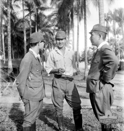 LABUAN, BORNEO. 1946-01. CAPTAIN SUSIMI HOSHIJIMA (CENTRE), JAPANESE COMMANDANT OF THE PRISONER OF WAR CAMP AT SANDAKAN, BORNEO, WHO IS ON TRIAL AS A WAR CRIMINAL AT HEADQUARTERS 9TH DIVISION. HE IS TALKING WITH HIS DEFENCE COUNSEL OUTSIDE THE WAR ROOM WHERE THE TRIAL IS BEING HELD.